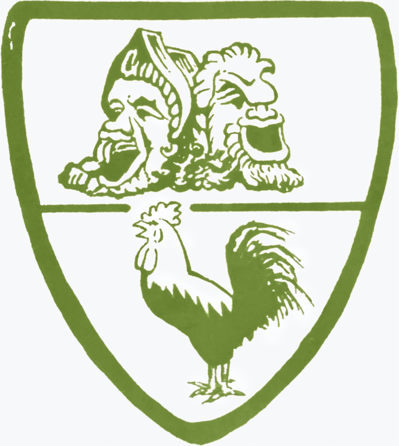 Logo of the French production company "Le Film d'Art" from an original movie poster of the year 1909.